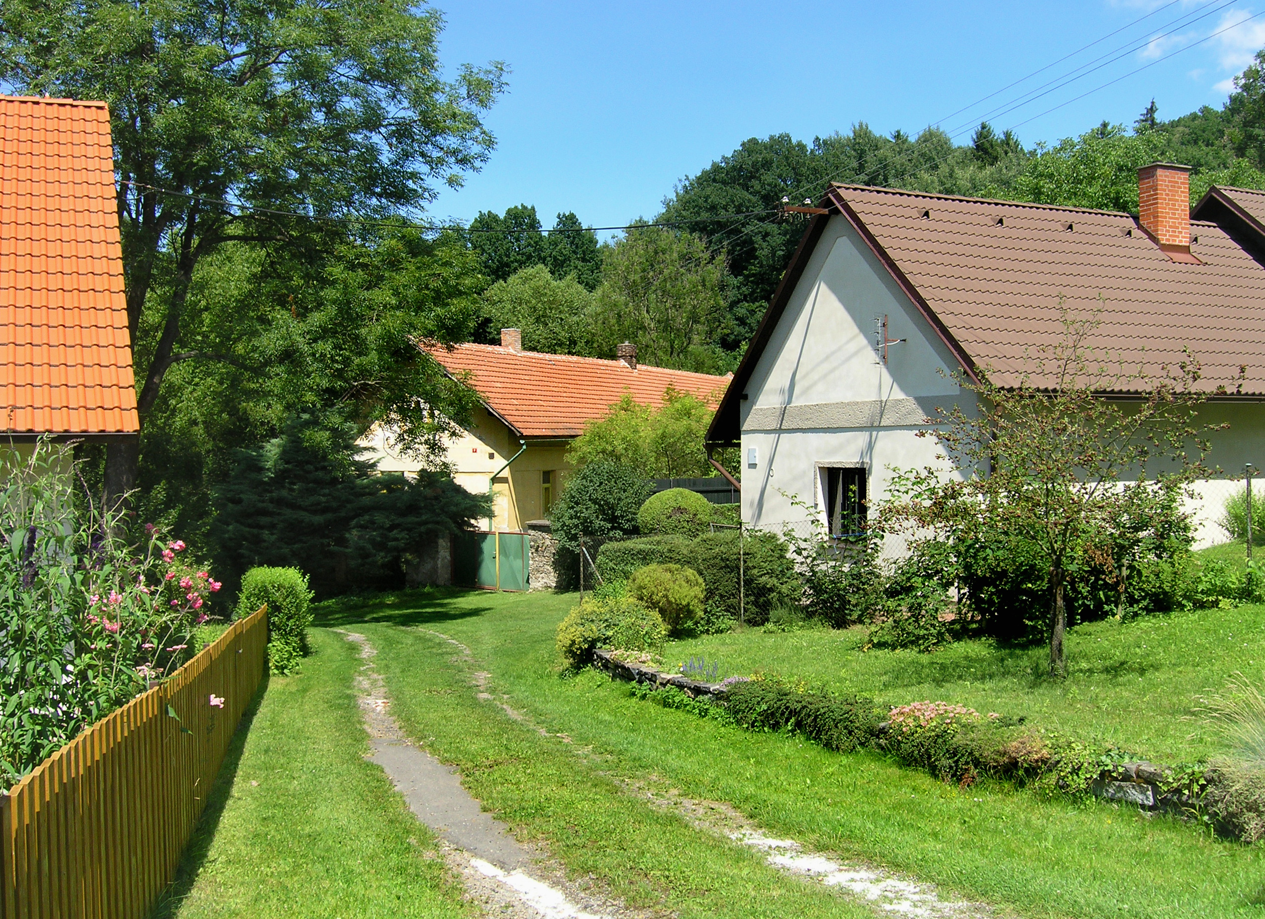 North part of Žlebská Lhotka, part of Žlebské Chvalovice village, Czech Republic